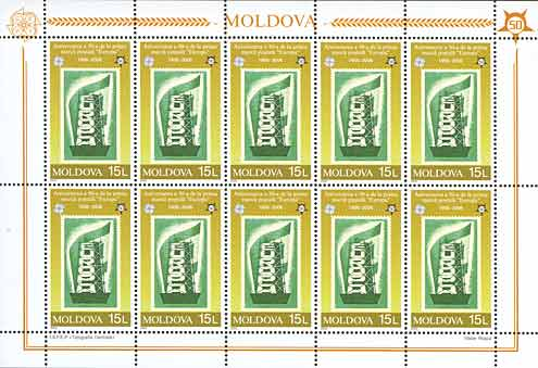 Stamp of Moldova